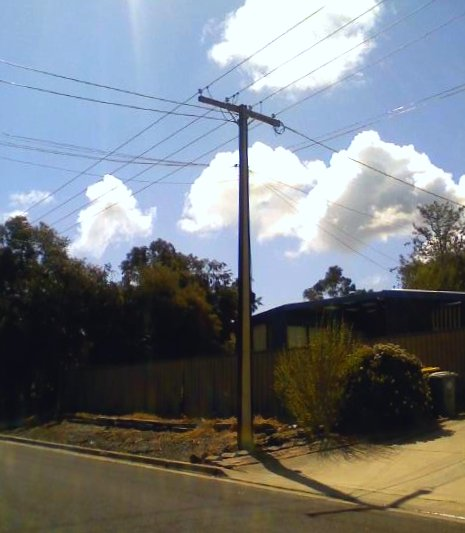 Low quality but hopefully demonstrative image of a stobie pole. Southern suburbs of Adelaide.